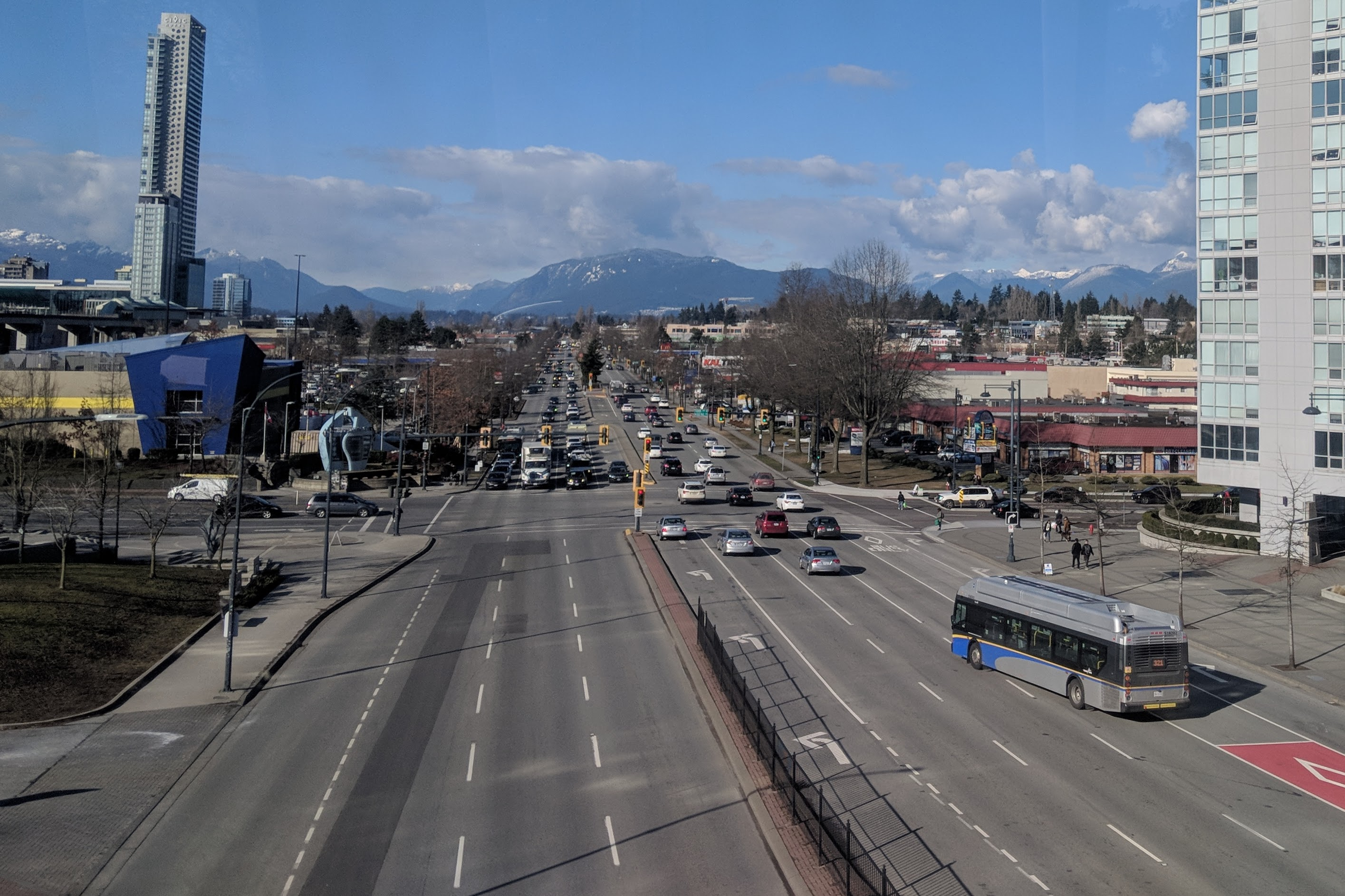 Looking north on King George Boulevard in Surrey, British Columbia, Canada. Viewed from an inbound Expo Line train.